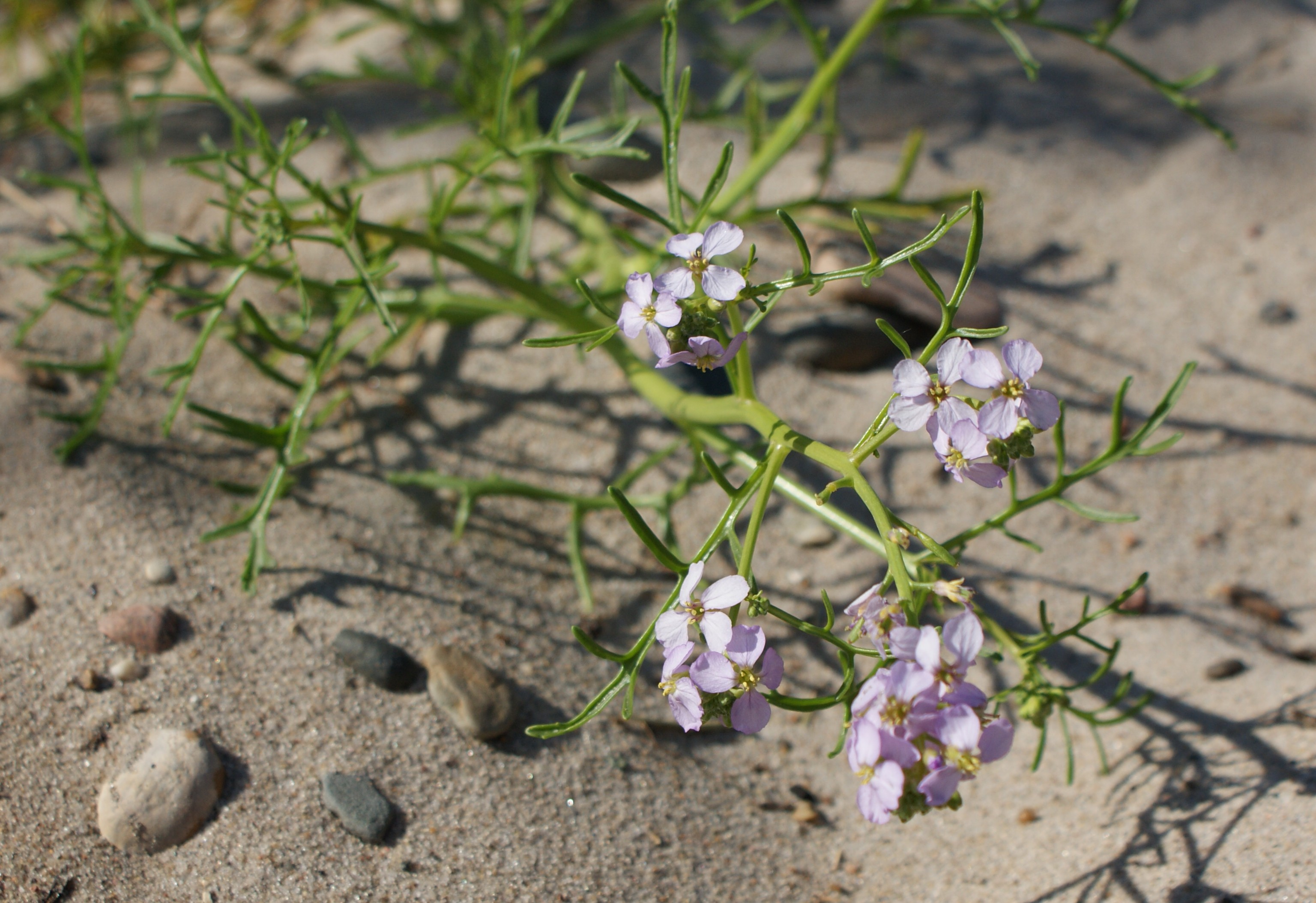 Cakile maritma subsp. baltica. Mielno (NW Poland)